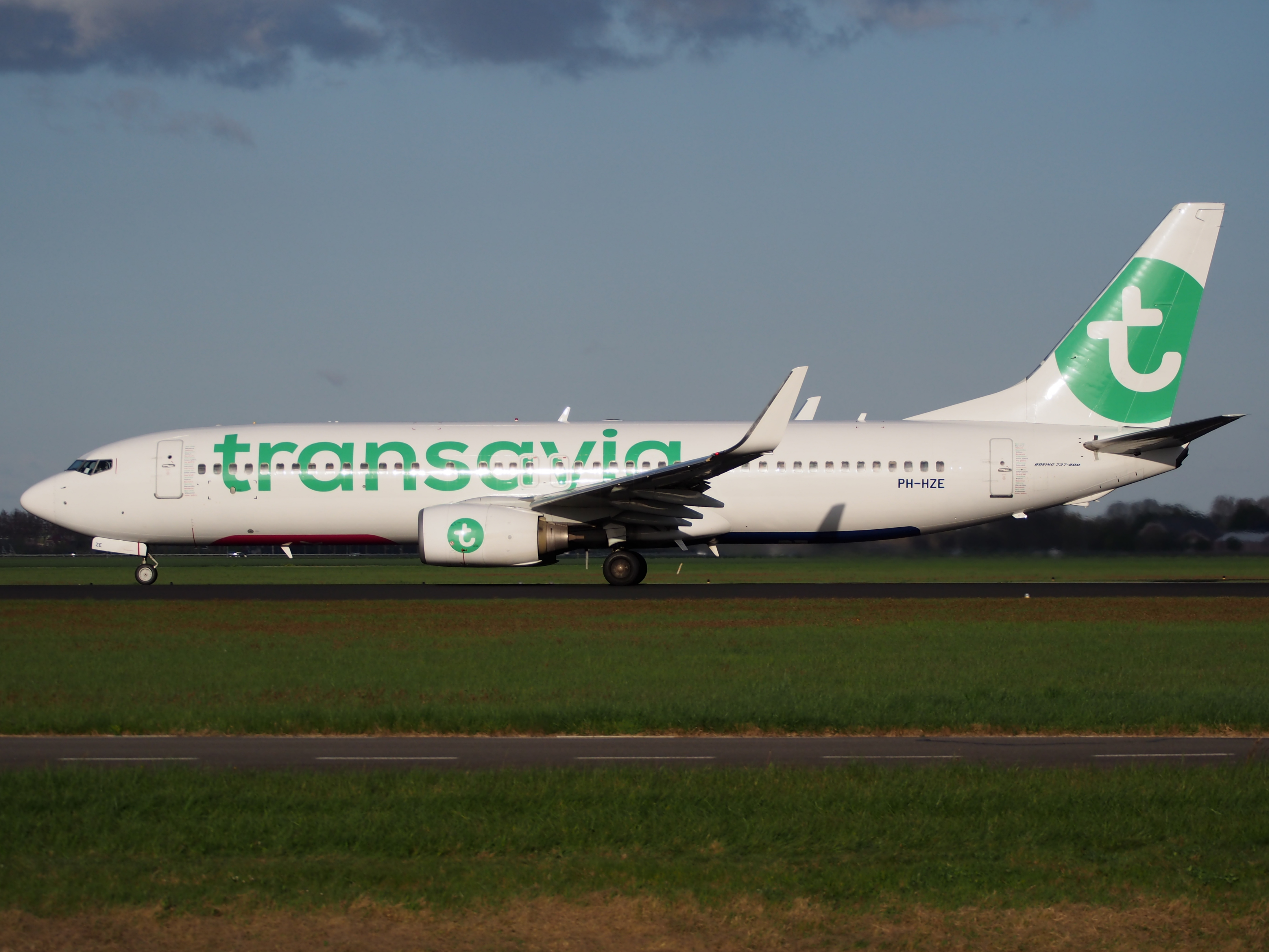 Aircraft photographed at Schiphol (AMS - EHAM).